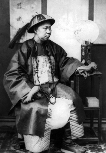 Shen Baozhen (Sīng Bō̤-tĭng), an important Qing official in the Chinese Self-strengthening movement of 19th century.